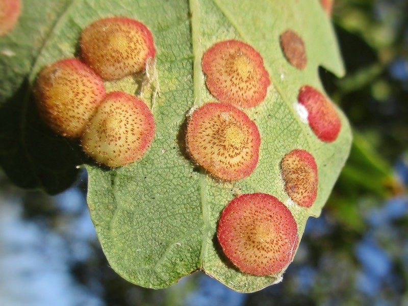 Neuroterus quercusbaccarum (Neuroterus sp.) gall, Elst (Gld), the Netherlands